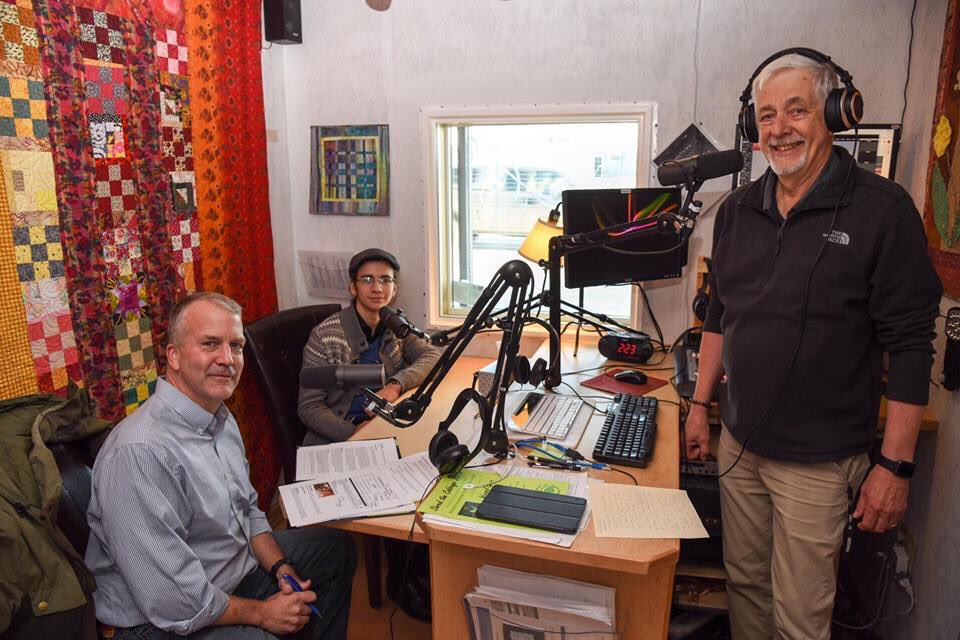 Big thanks to the news teams at KVRF Radio Free Palmer and @matsu_news for hosting me yesterday to discuss some of the significant progress we’re making in Washington, D.C and some areas of particular interest to Alaskans.